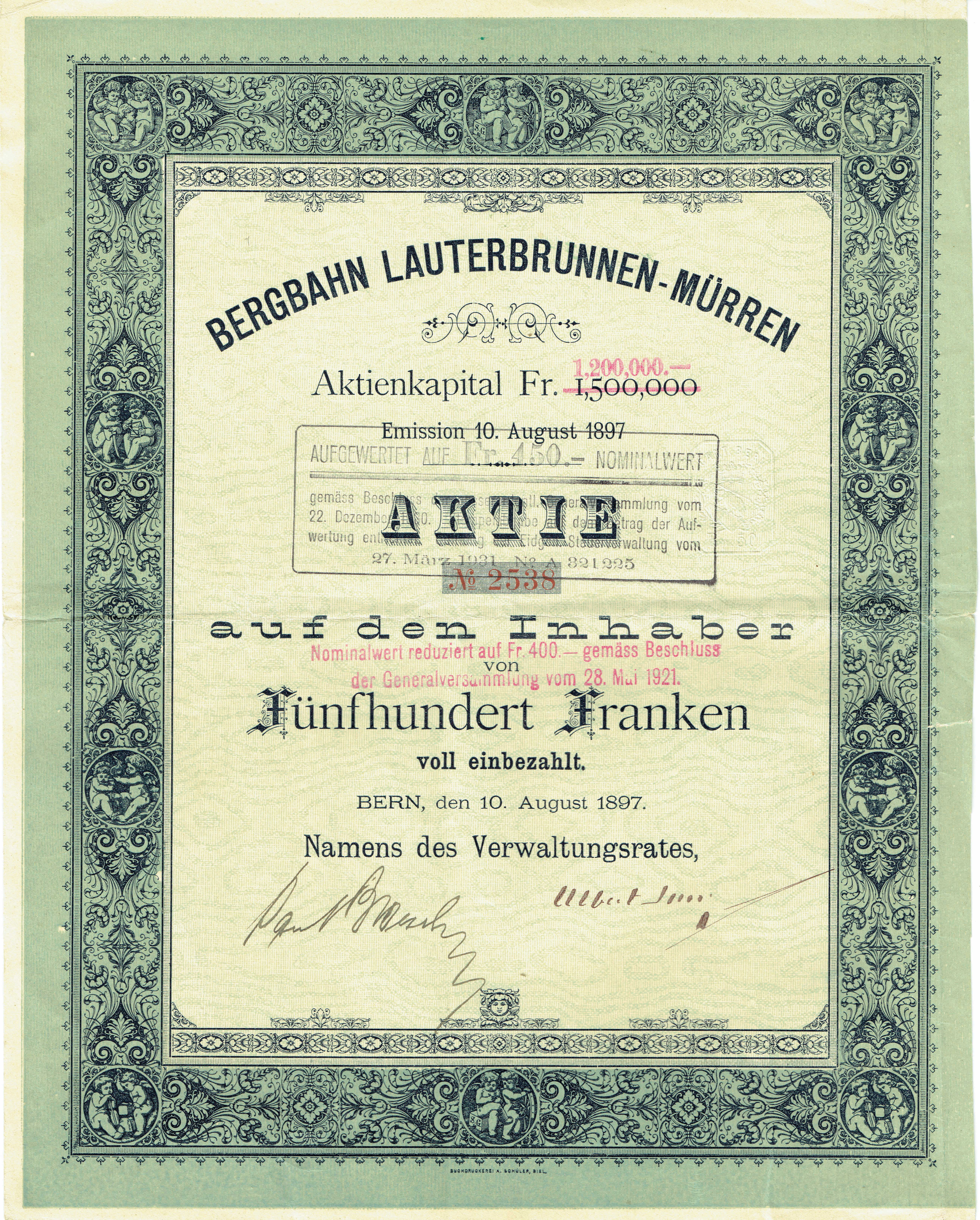 Share of the Bergbahn Lauterbrunnen-Mürren, issued 10. August 1897